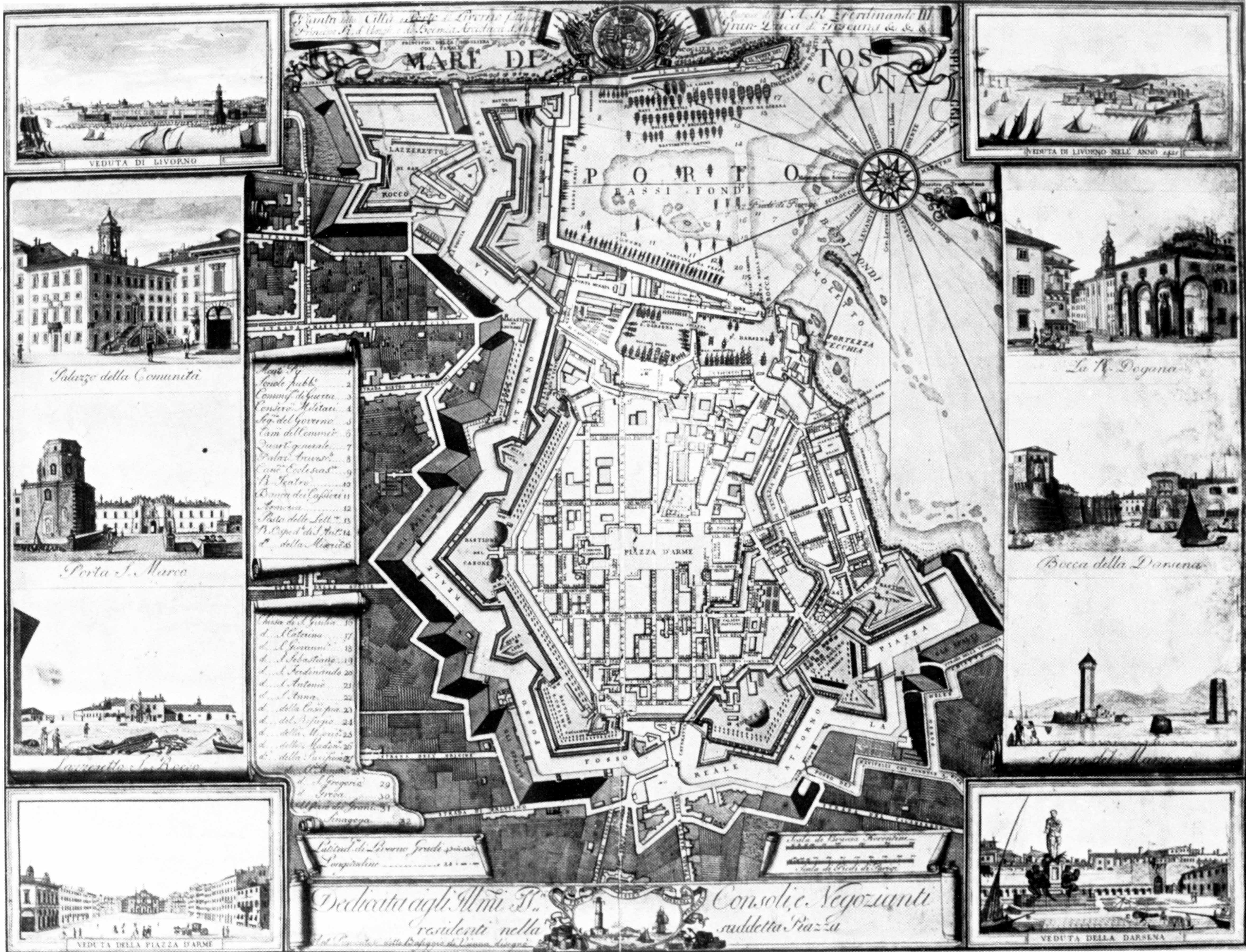 Italy, Livorno. The architectural plan of the town of Livorno and ten sights. There are only two copies, one dedicated to the Consuls and Merchants and the other to Grand Duke Ferdinando III. (Biblioteca Labronica, Collezione Minutelli, Livorno).